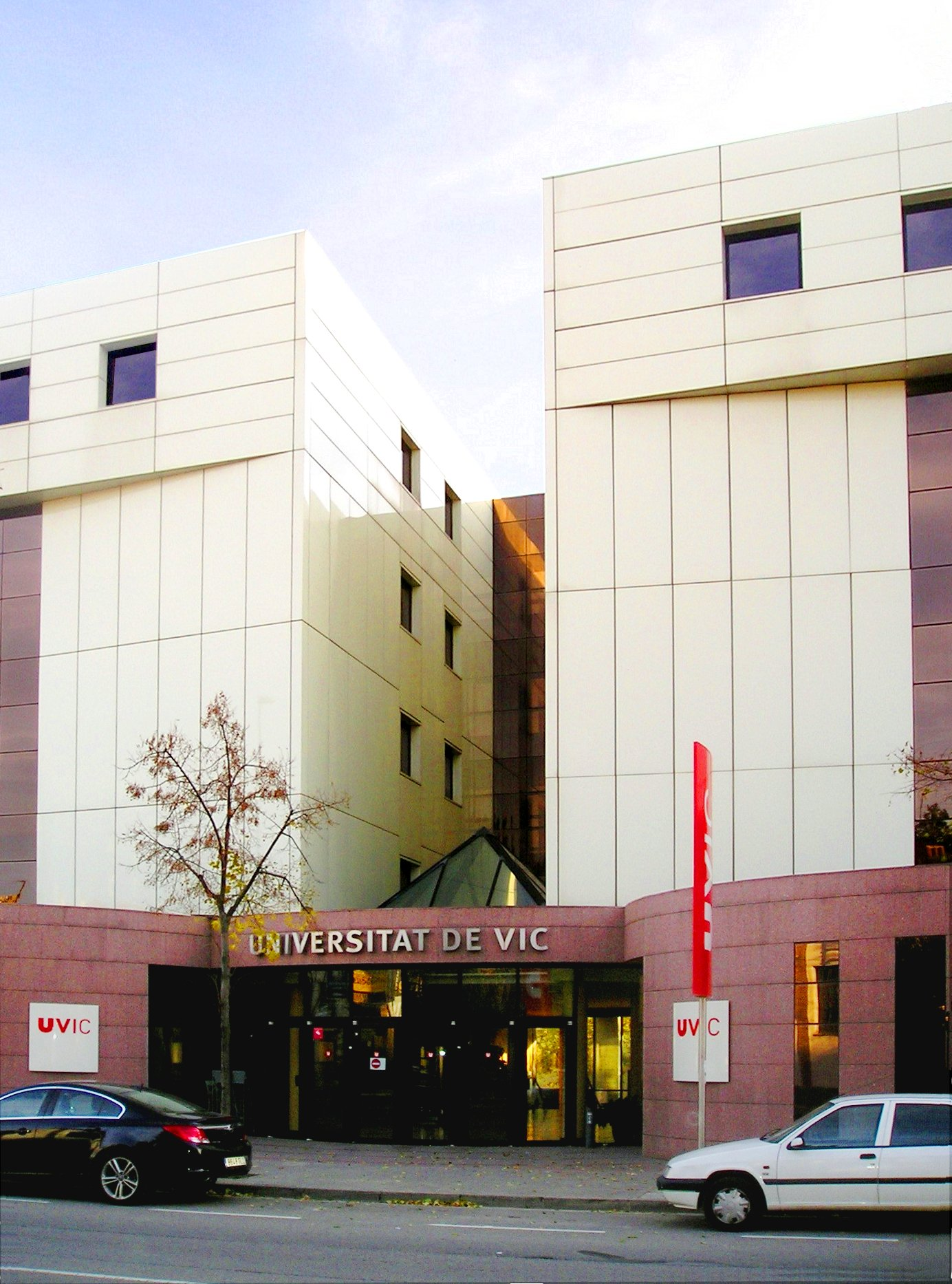 University of Vic